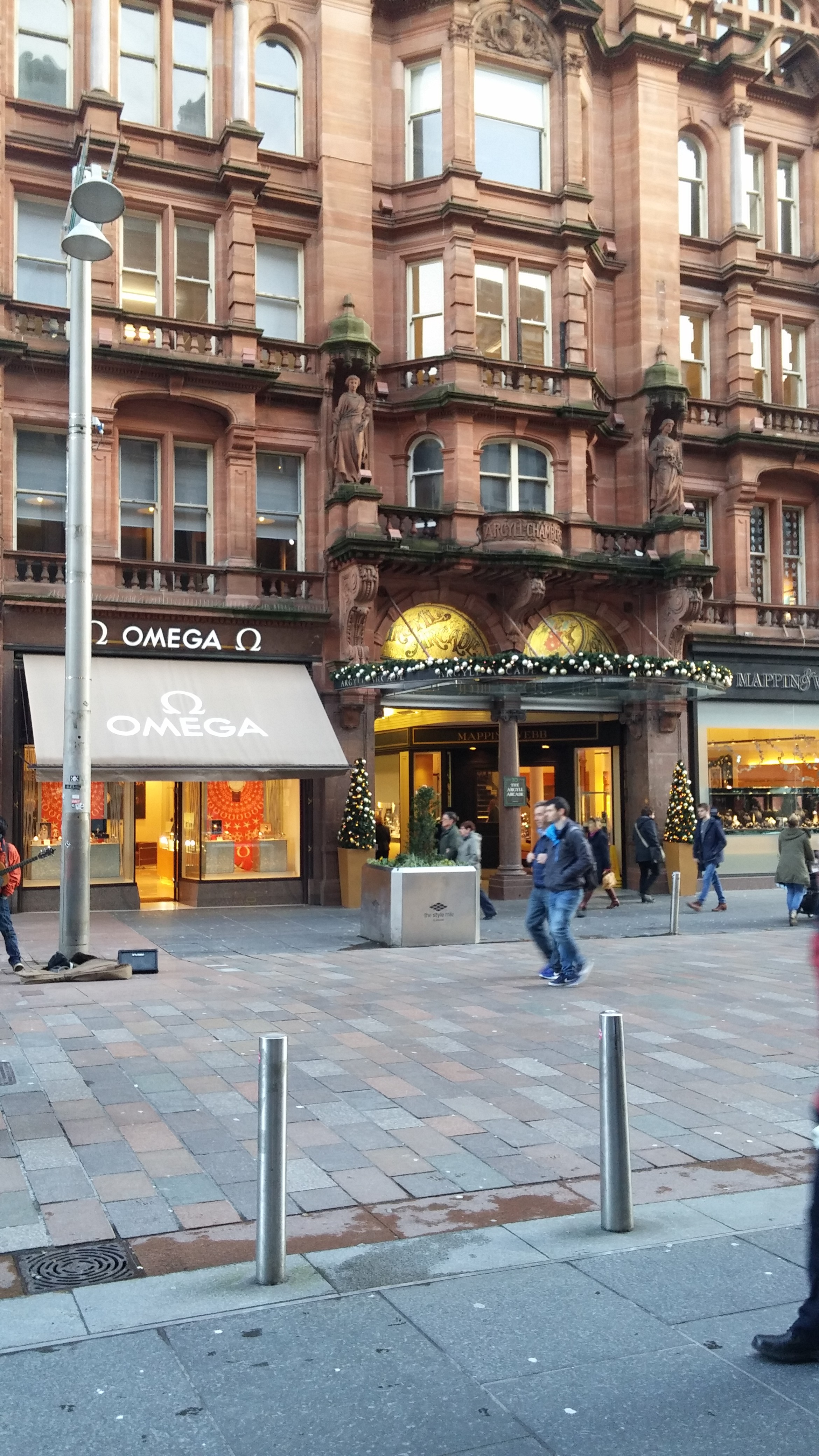 A view of the Argyle Arcade from the outside.